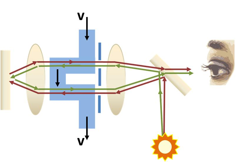 Fizeau interferometer applied to finding the effect of a moving medium upon the speed of light.